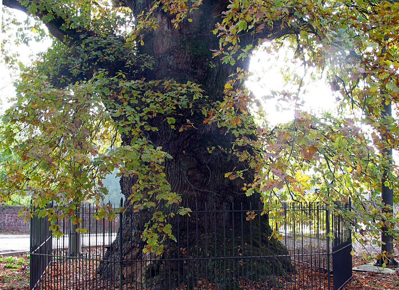 Pedunculate oak.